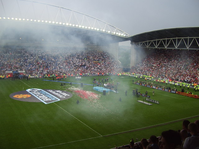 JJB Stadium View of North Stand from the East stand during the final game of the 07-08 season when UTD beat Wigan (just !) and received the Premiership cup.